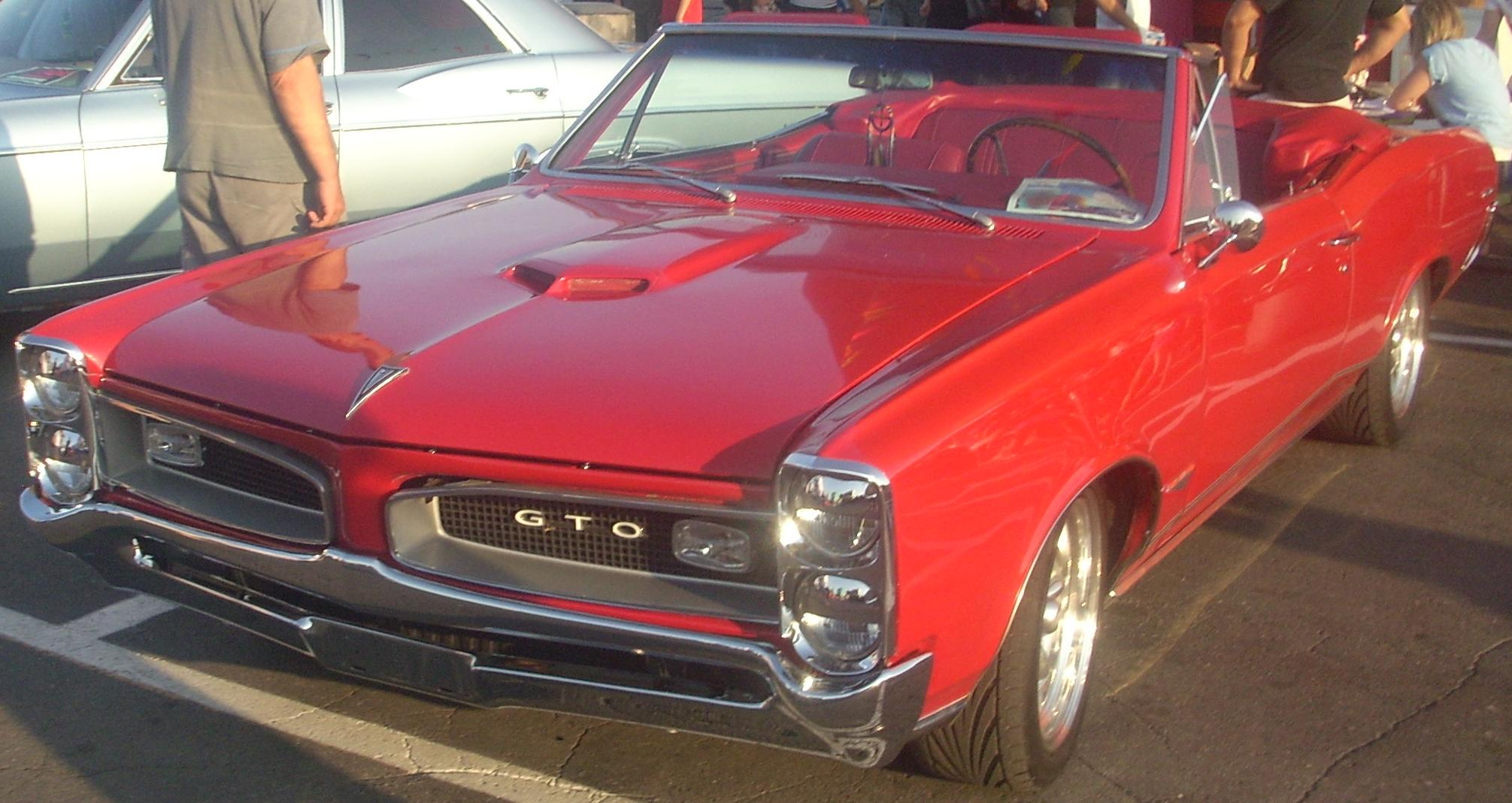 1966 Pontiac GTO with non-stock wheels and tires, photographed in Montreal, Quebec, Canada at Gibeau Orange Julep.